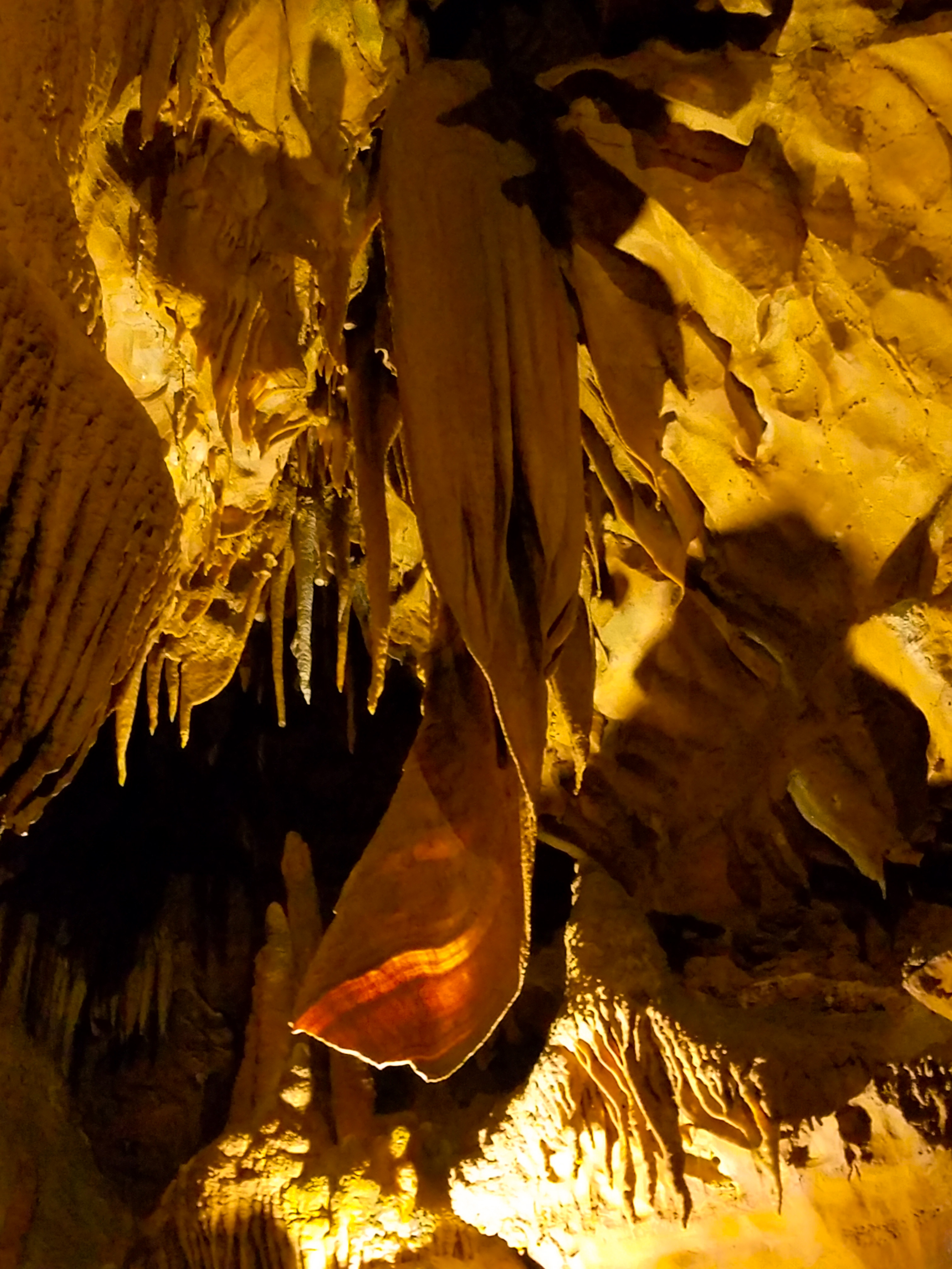 Flowstone deposits in thin sheets can be called "draperies" or "curtains". Some draperies are translucent, and some have brown and beige layers that look much like bacon, hints the name cave bacon. This photo was taken on level 2 in Diamond Caverns, Park City, Kentucky.